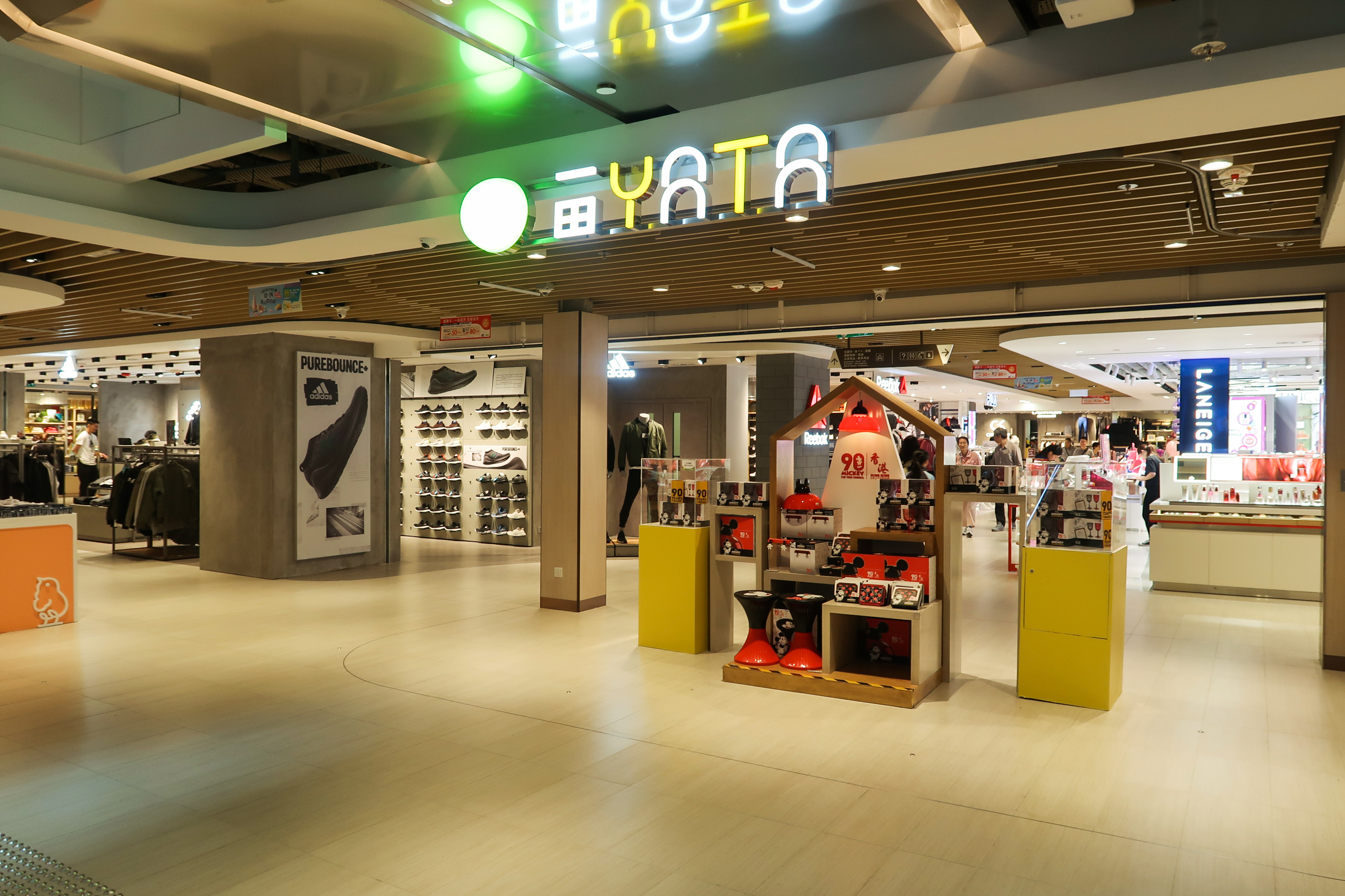 YATA Shatin